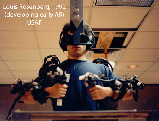 Louis Rosenberg testing Virtual Fixtures, one of the first Augmented Reality systems ever developed (1992).